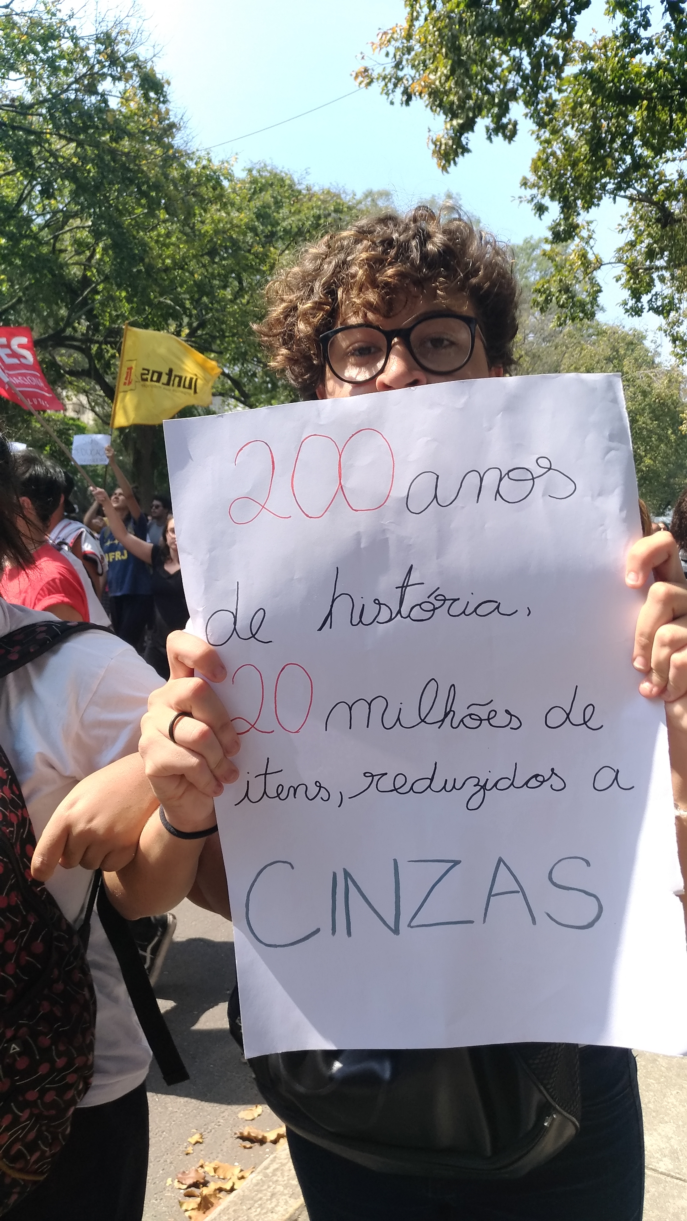 Some students carry placards. "200 years of history, 20 million items, reduced to ASHES"